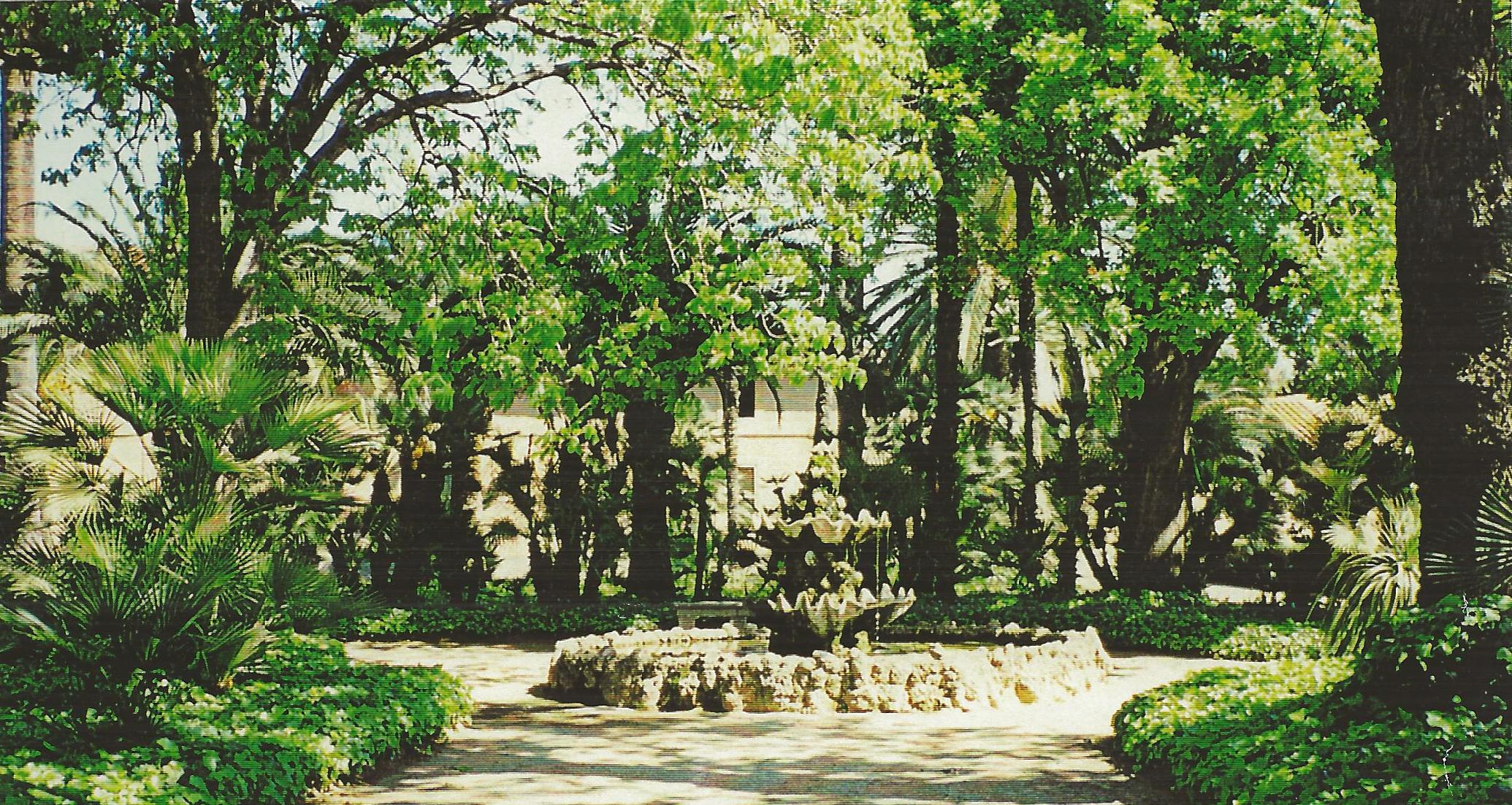 Parc Sama's garden